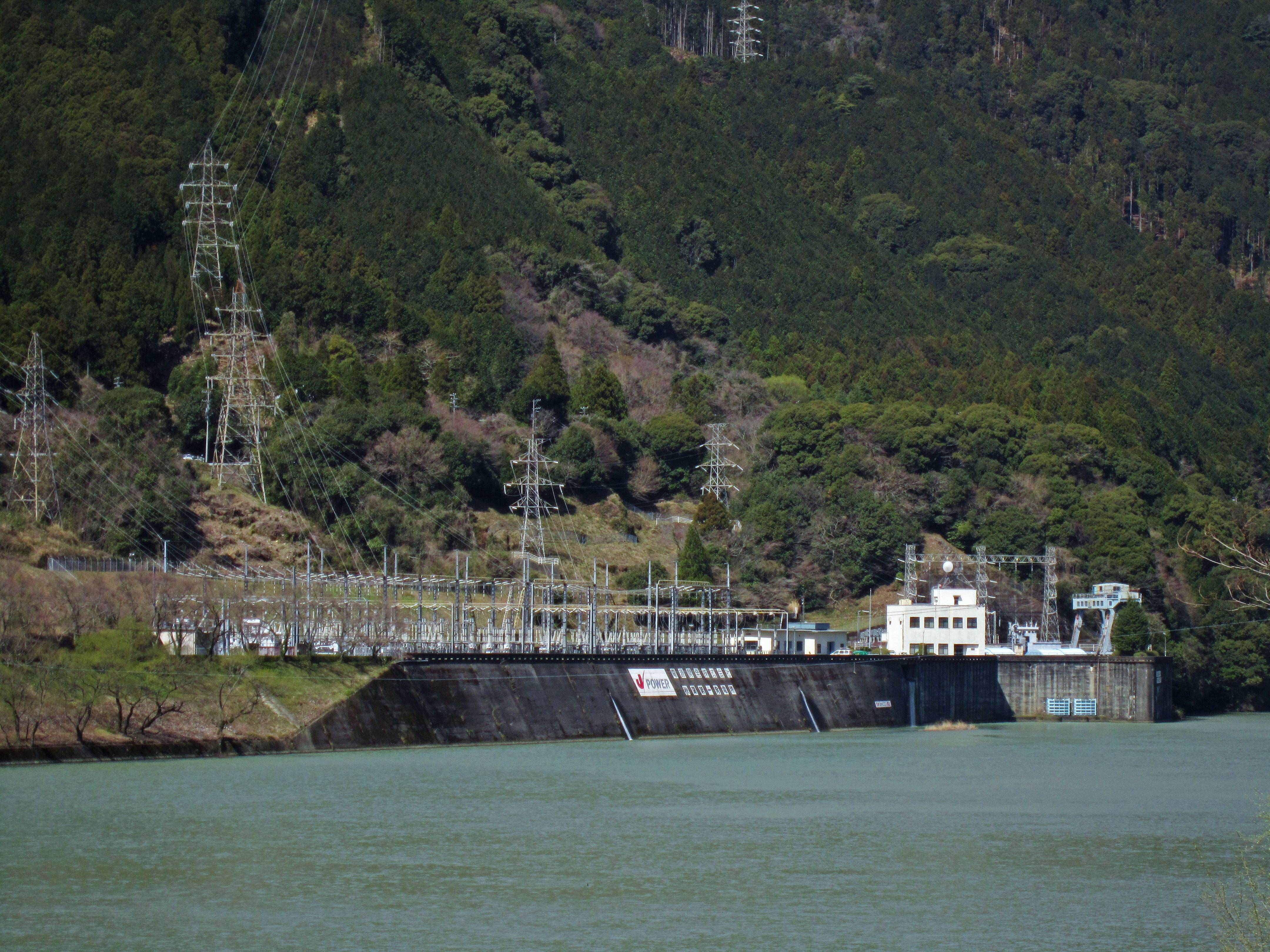 Akiha I power station.